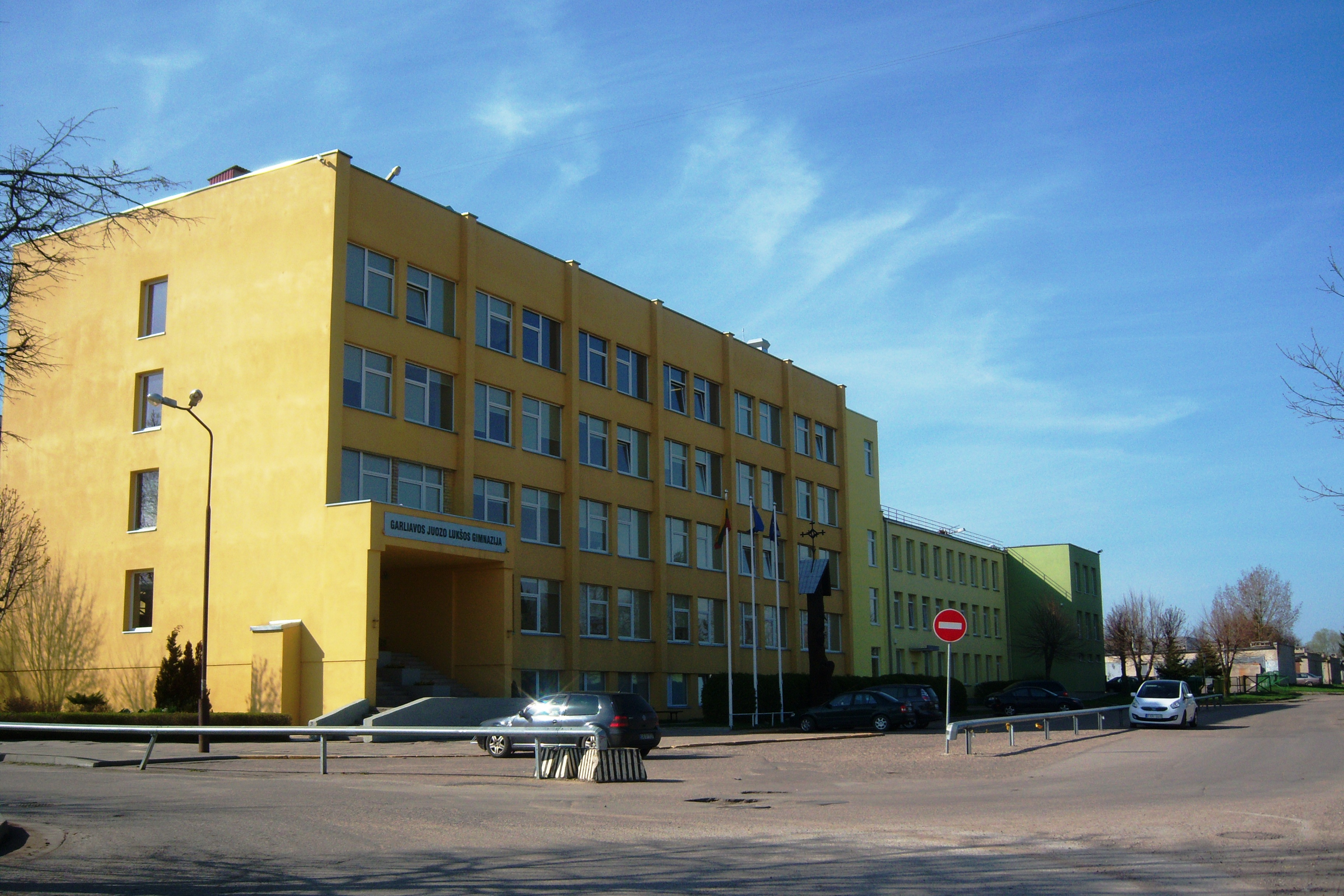 Juozo Lukšos Gymnasium, Garliava, Kaunas district, Lithuania